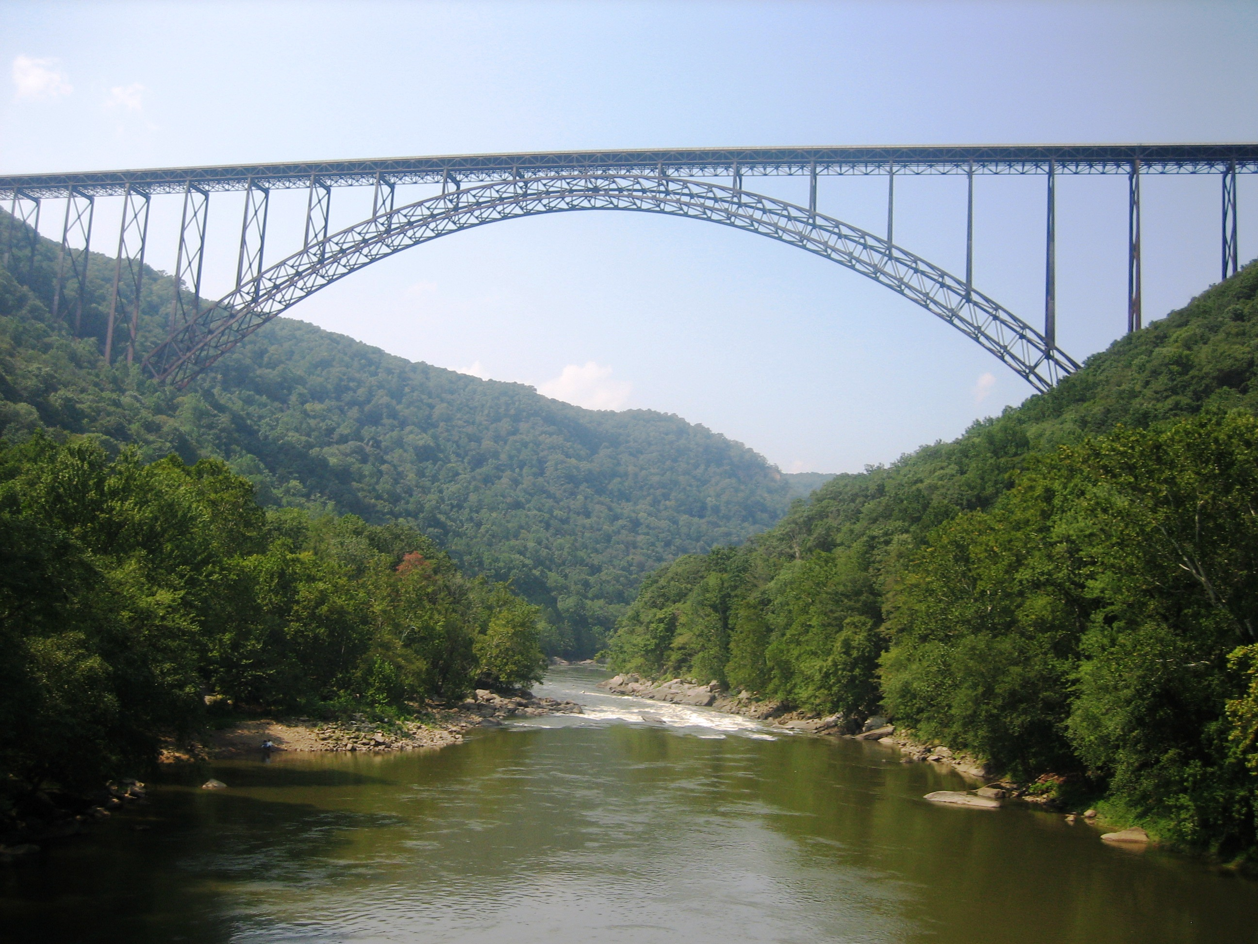 New River Gorge Bridge, West Virginia, USA. Arching gracefully across the New River, West Virginia, the bridge has the world's 2nd longest single arch steel span. At 876 feet above the New River, it is the second highest bridge in the United States.